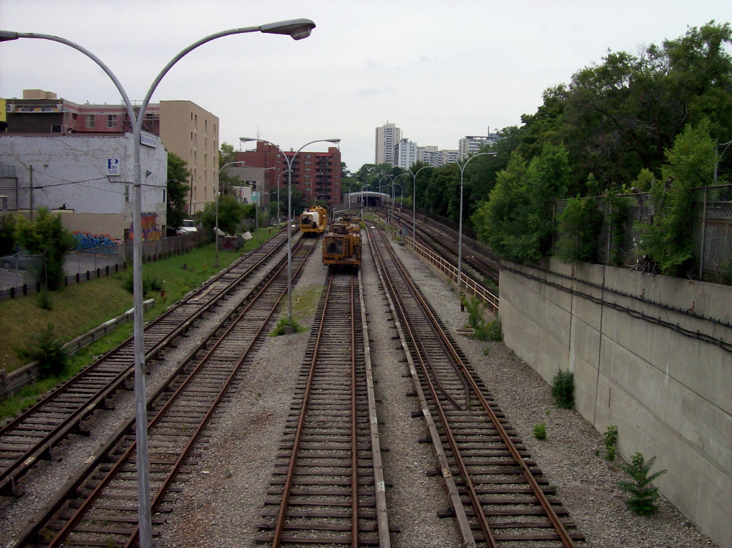 Toronto Transit Commission's (TTC) Vincent Yard, located between the Dundas Street West and Keele Subway stations. This photo was taken looking westward from Dorval Rd. In the background it is possible to see the Keele station.